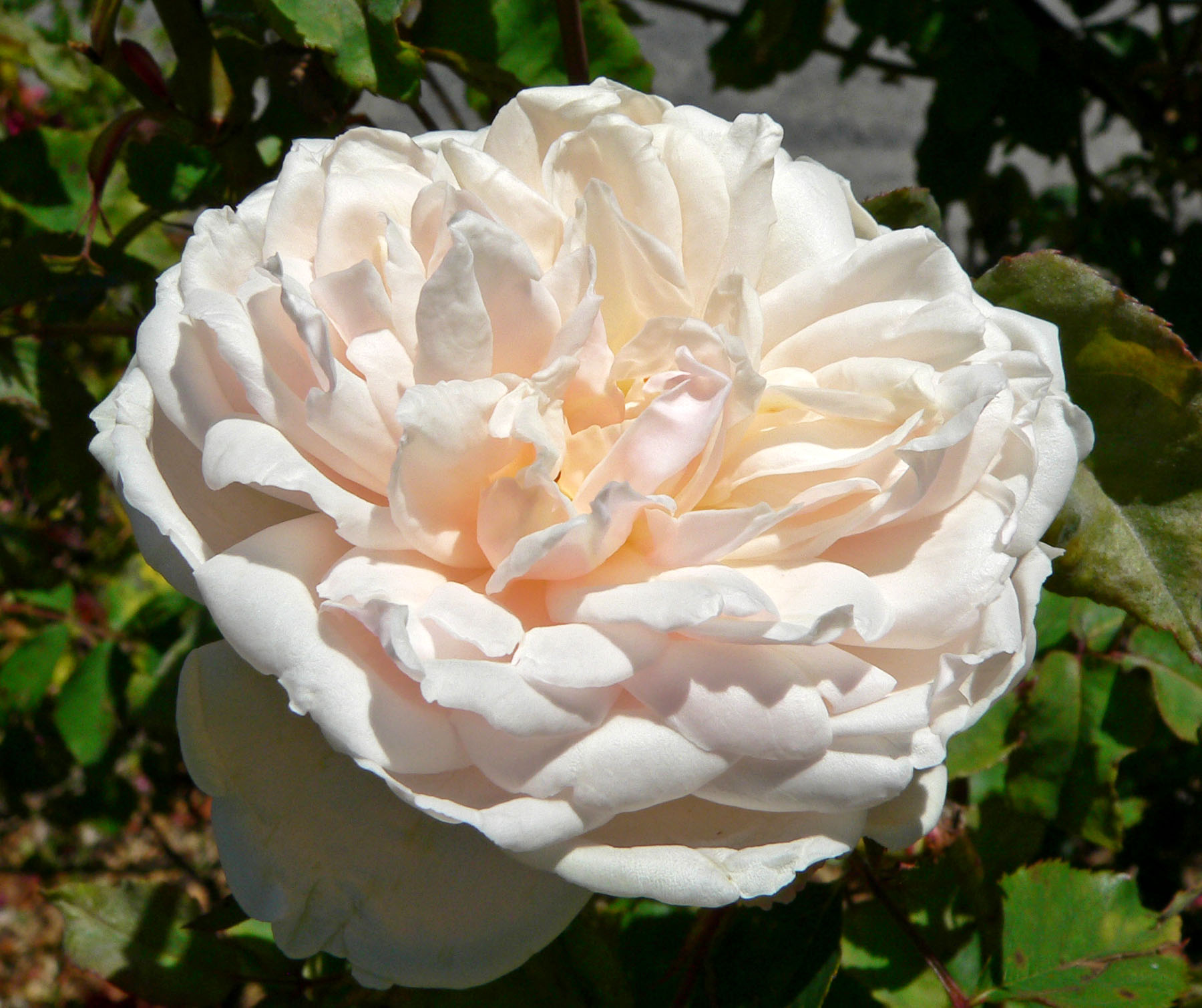 Rosa 'Madame Alfred Carrière' at the San Jose Heritage Rose Garden